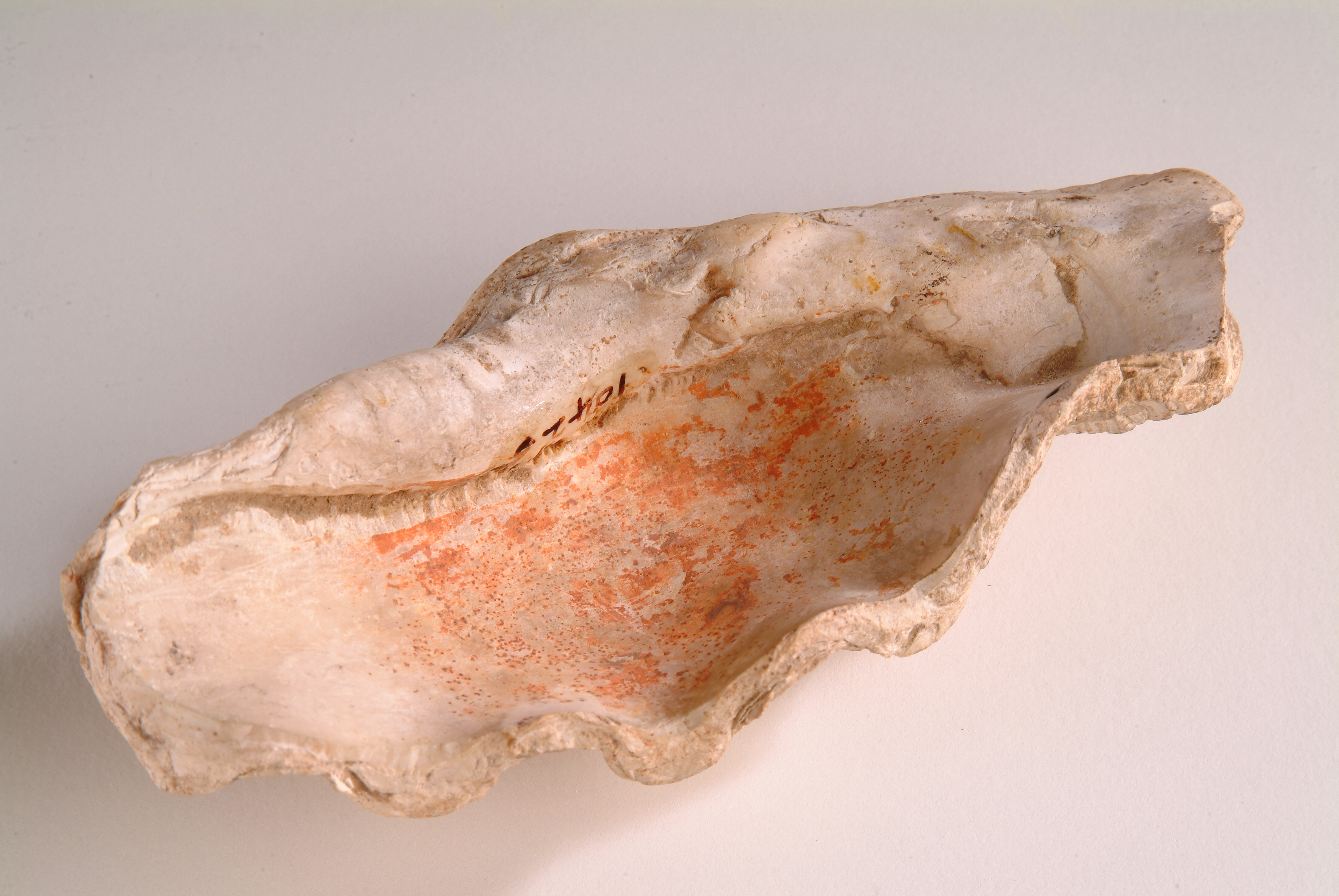 Shell of the Giant Clam (Tridacna gigas) from the Red Sea reused as a container for red paint made form ochre (iron oxide), plant oil and plant gum, a similar recipe to that used in a tomb in the Valley of the Kings, Thebes. Egyptians often used natural objects to store paint and cosmetics, such as in this case a shell. The paint found in this shell could have been used by draughtsmen to sketch out guidelines of carvings for stonemasons as well as to detail rough outlines of figures on tomb walls.